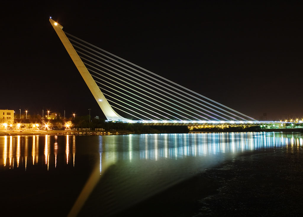 The Puente del Alamillo in Seville at night. The bridge was designed by Santiago Calatrava in 1992.